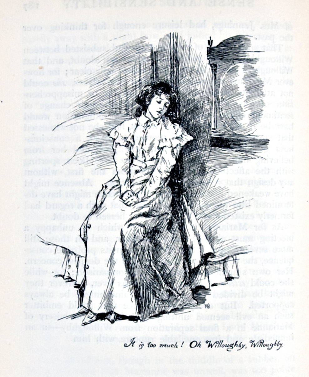 "It is too much! Oh Willoughby, Willoughby!" - Marianne's sadness and frustration after Willoughby sends a letter returning her lock of hair and saying he was never in love with her. Austen, Jane. Sense and Sensibility. London: George Allen, 1899, page 188.